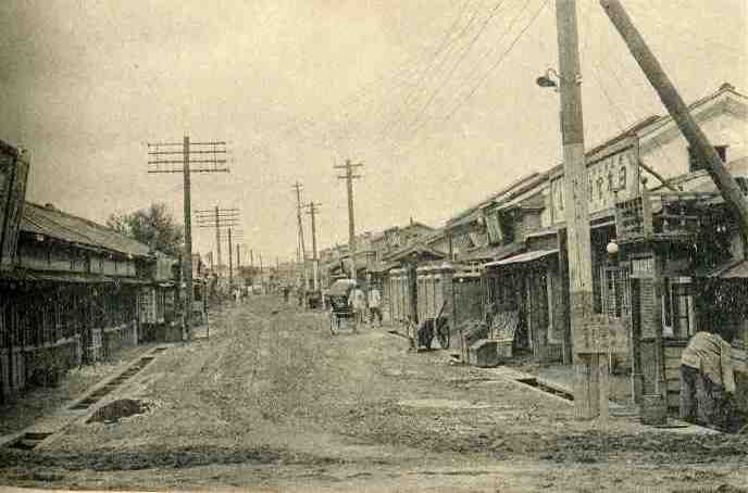 A postcard showing Xita Street (西塔大街) of Mukden SMR Zone.